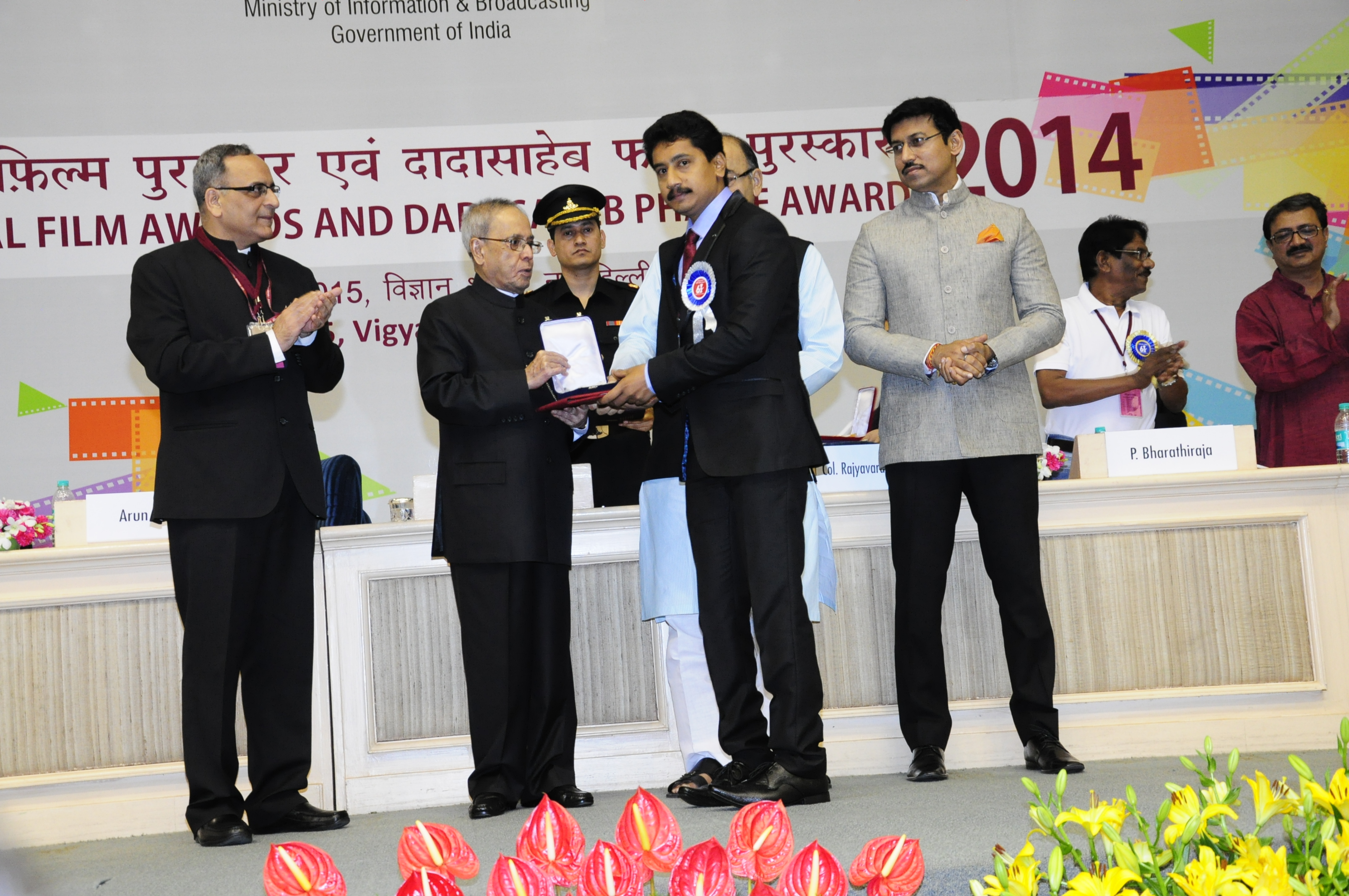 Photo of Kannada cinema and theater actor Sanchari Vijay receiving national award for best actor from President of India